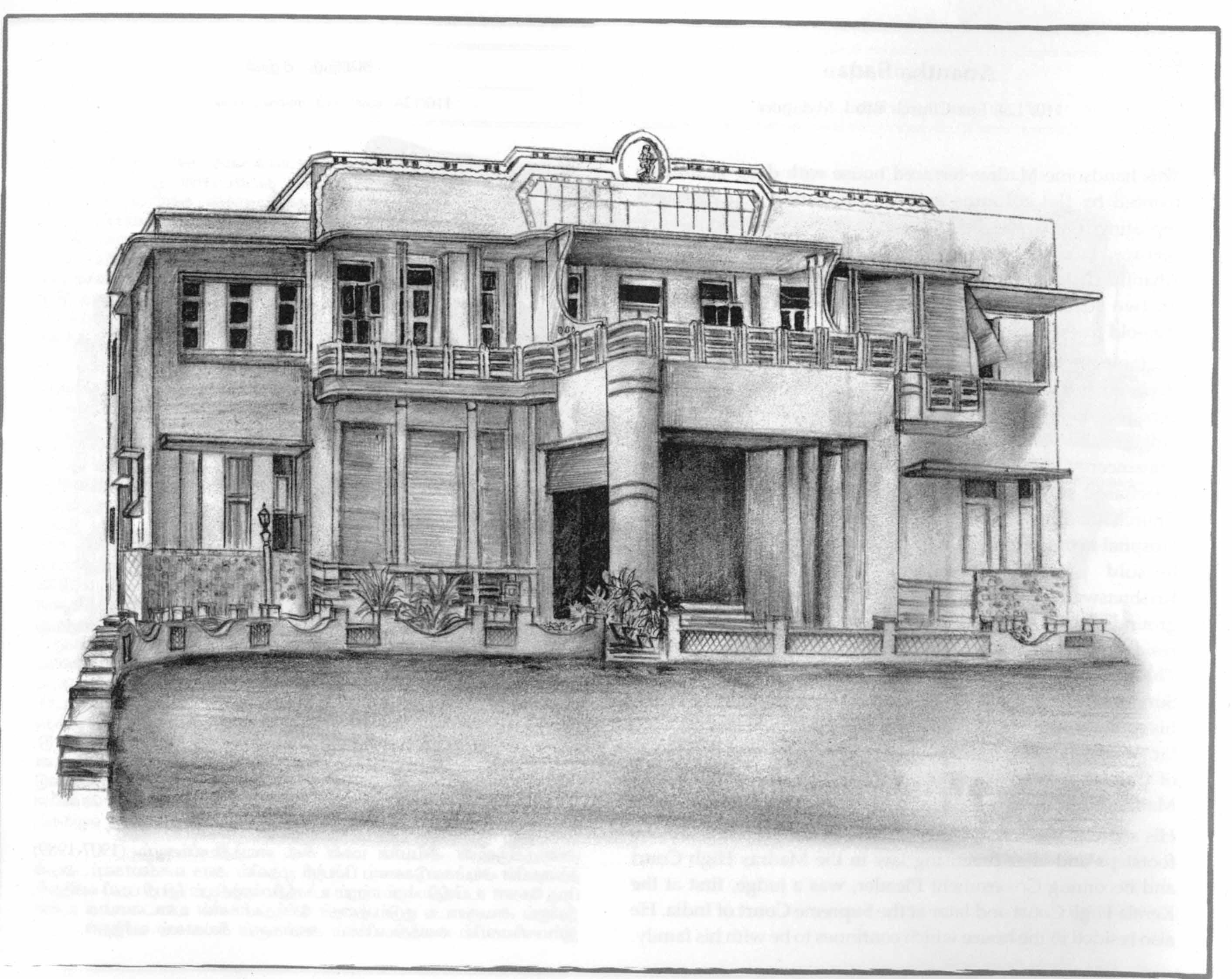 Sivaji Ganesan's House Annai Illam